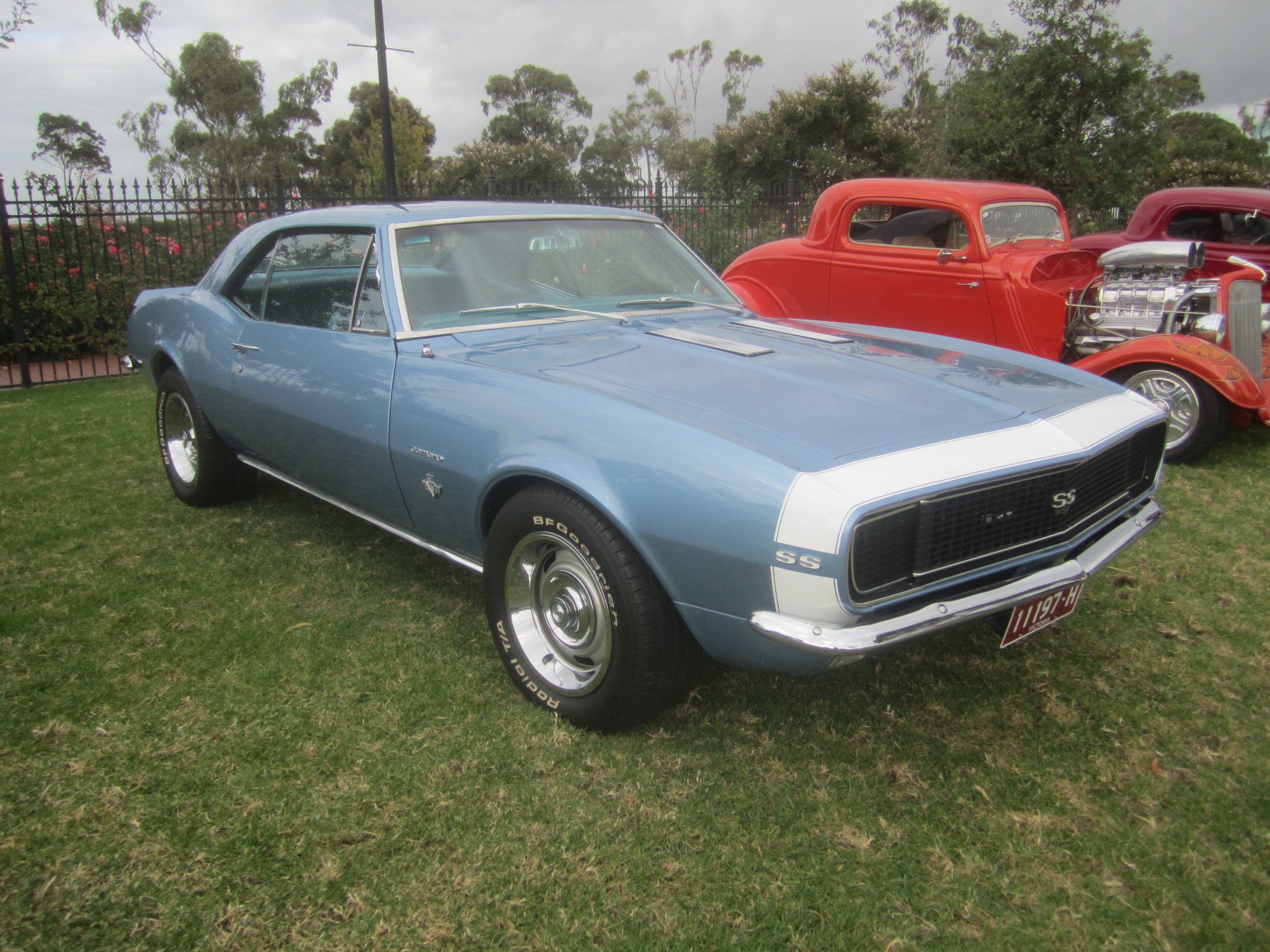 A F body Pony Car, introduced in Sept 1966, direct competition for the Mustang, shared platform and components with the Firebird. Available in base, RS appearance package, SS performance package and race ready Z28 designed to compete in the SCCA Trans Am Series. This car has both the RS and SS package. The SS performance package got either the 350 or 396 cu in V8, better suspension, striping , SS badges and non functional air intakes on the hood. With the RS appearance package you got the hidden headlights, revised tail lights with back up lights under the bumper, rocker trim and RS badging.